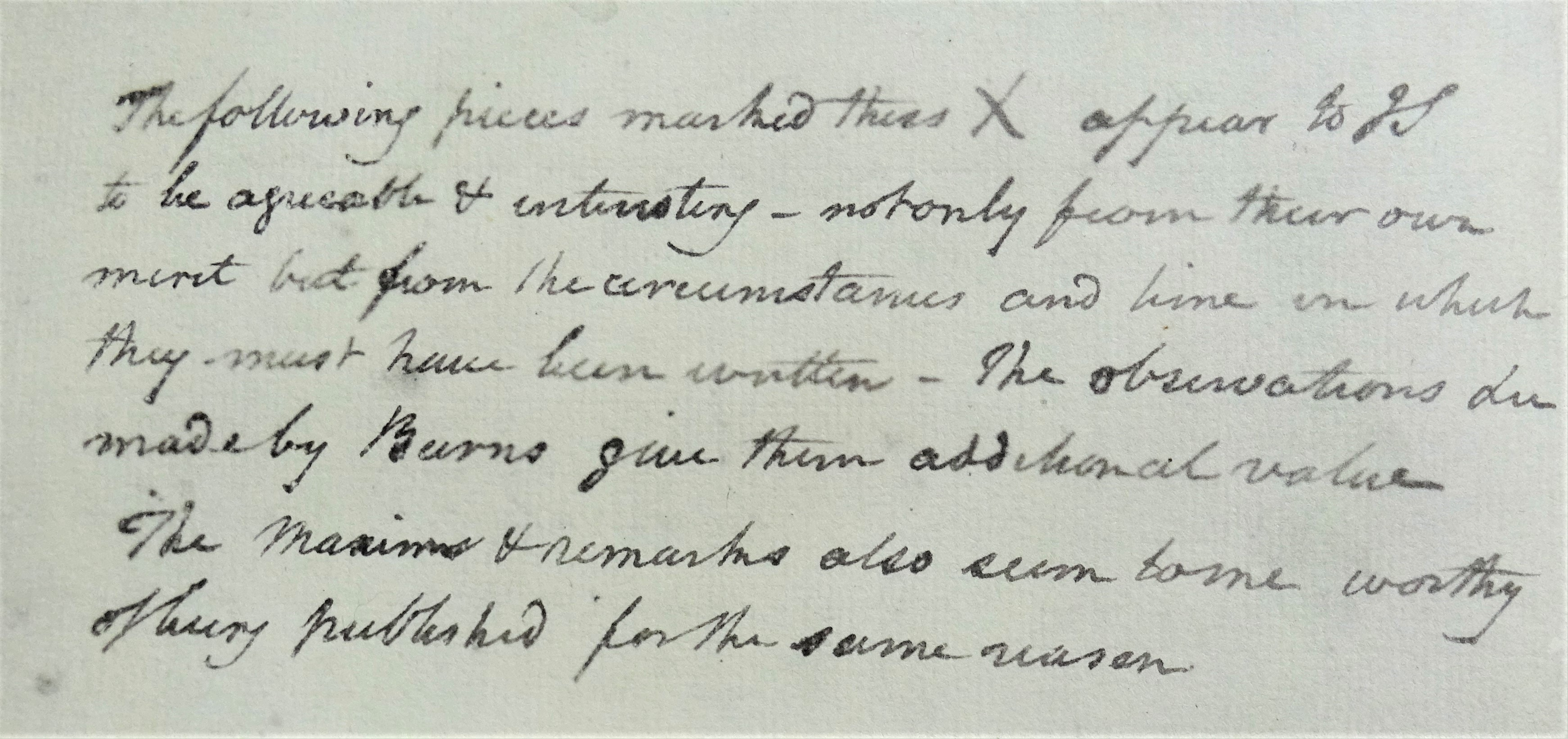 John Syme's editing and appraisal comments, Robert Burns's Commonplace Book 1783 - 1785. Page 2.